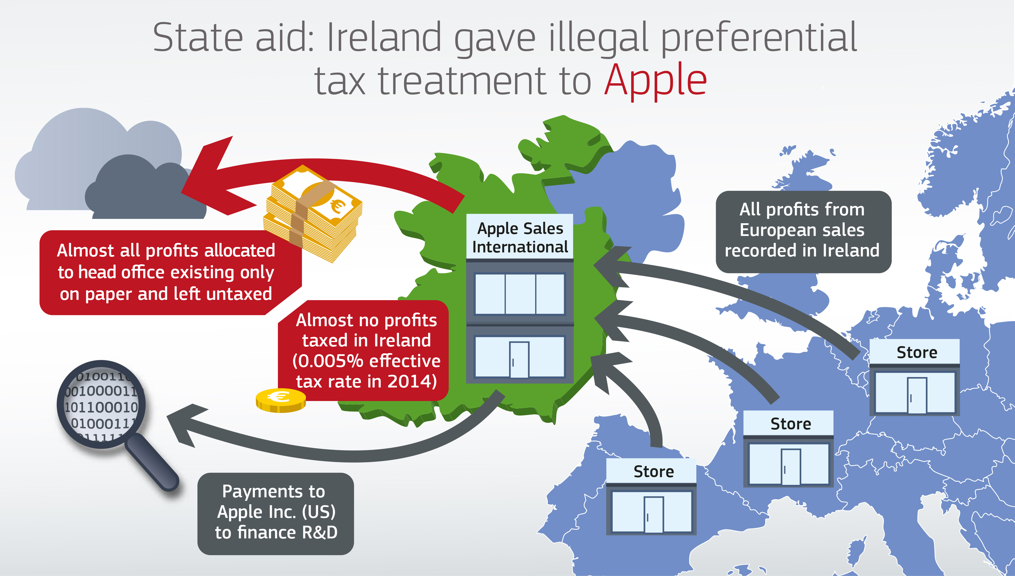 Press materials from the EU Commission findings against Apple in Ireland regarding illegal State aid